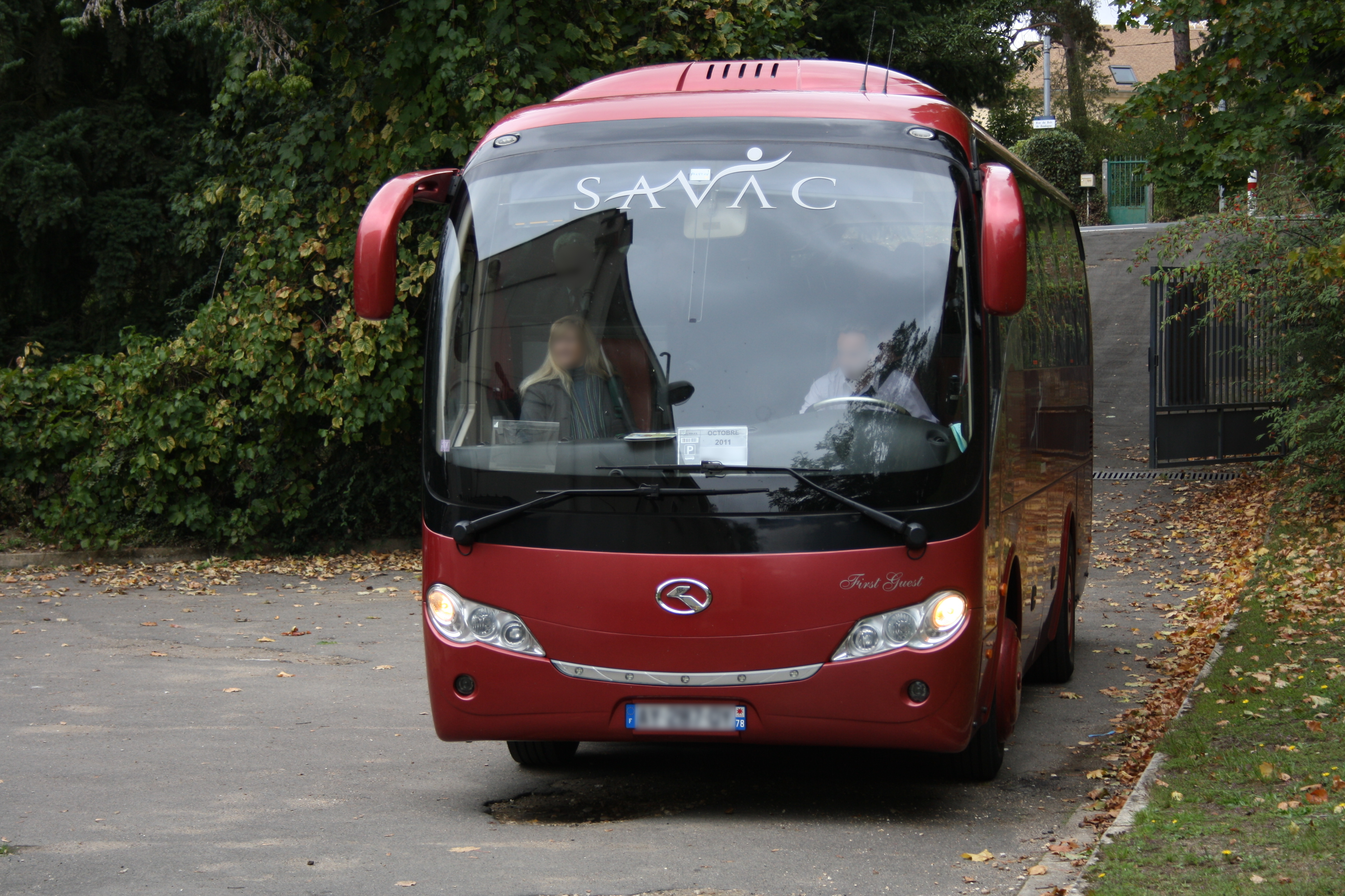 Visit of the Institut de Chimie des Substances Naturelles ("Institute for the chemistry of natural substances"), a institute part of the French National Centre for Scientific Research and located in Gif-sur-Yvette, France.